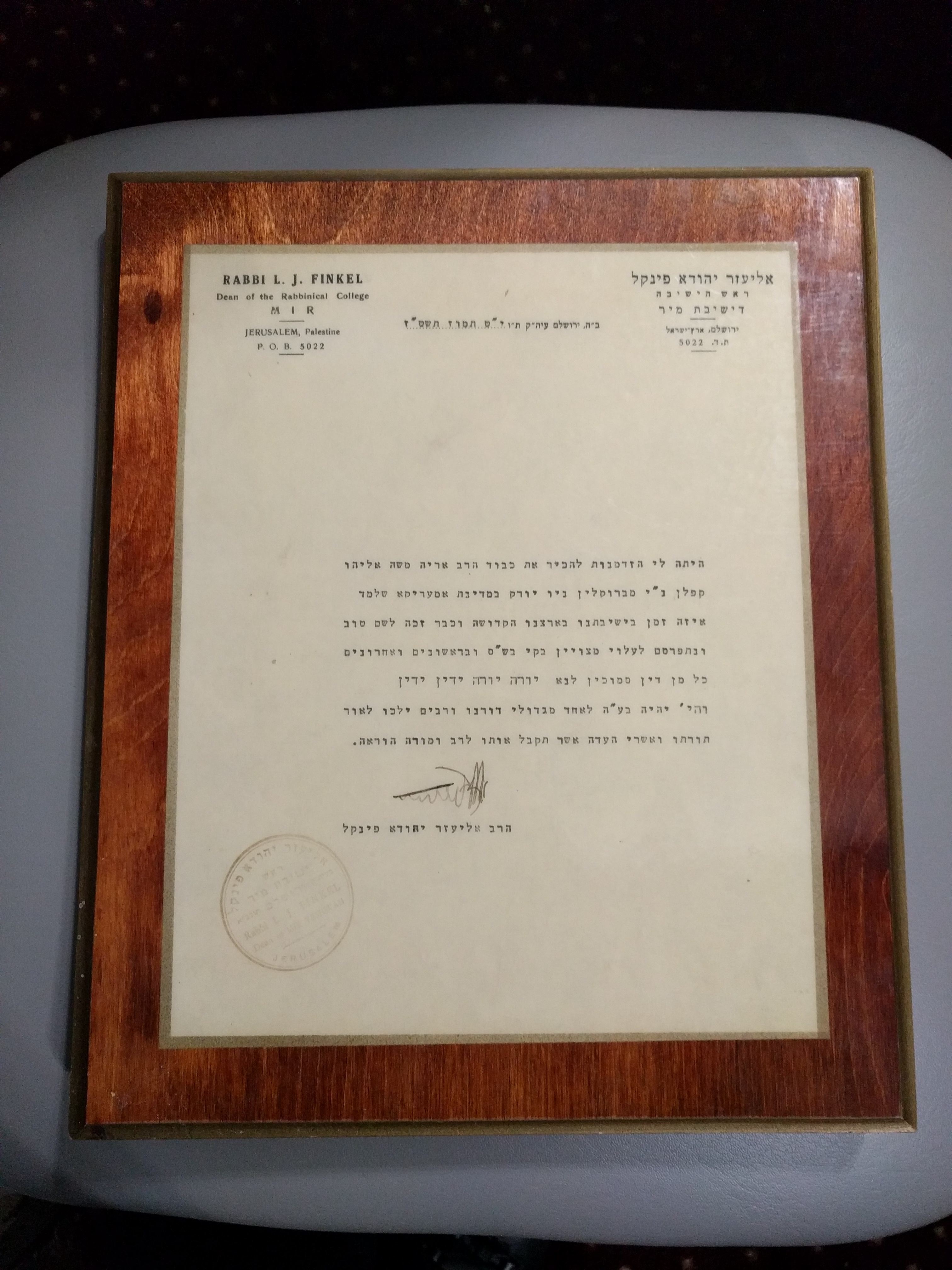 I have the opportunity to recognize the honor of Rav Aryeh Moshe Eliyahu Kaplan from Brooklyn, New York in America, that he learned for a time in our yeshiva in the holy land (Israel) and has merited to a good name and is well-known as a genius, an expert in Shas, Rishonim, Achronim, and for all laws to be given Yoreh Yoreh Yadin Yadin. And that it will be that he'll be one of the great of our generation and that many will come to the light of his Torah and fortunate is the congregation that will have him as a rabbi and teacher.